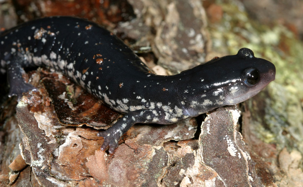 (White-spotted) Slimy Salamander, Plethodon cylindraceus. (Synonym Plethodon glutinosus, in part). Location: Moore County, North Carolina, United States.